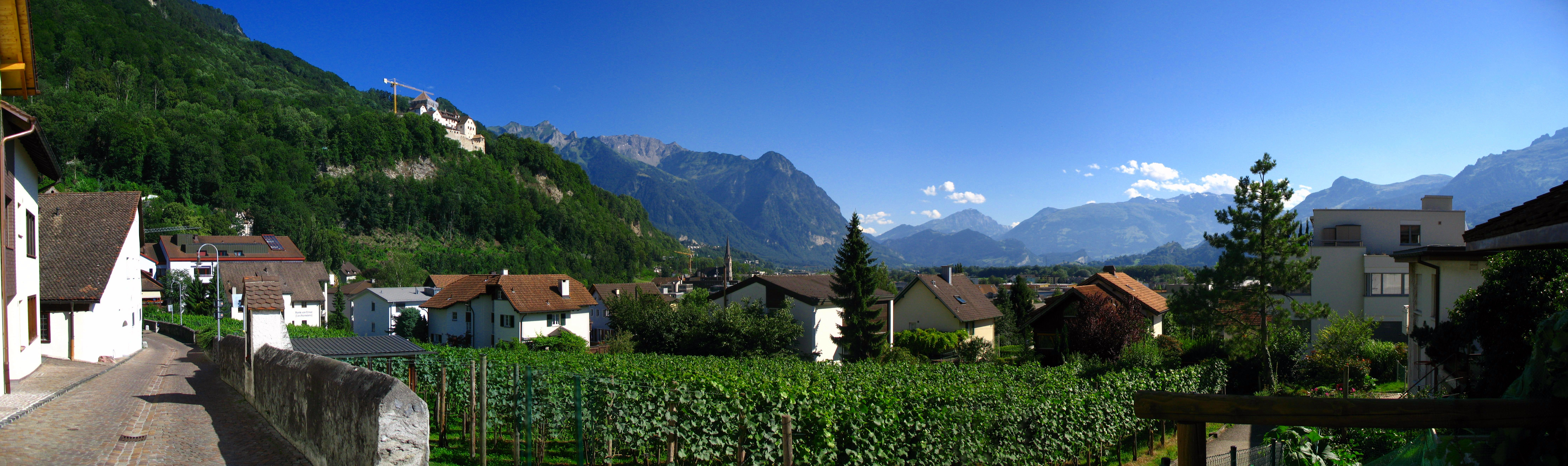 View from Mitteldorf, Vaduz, Liechtenstein